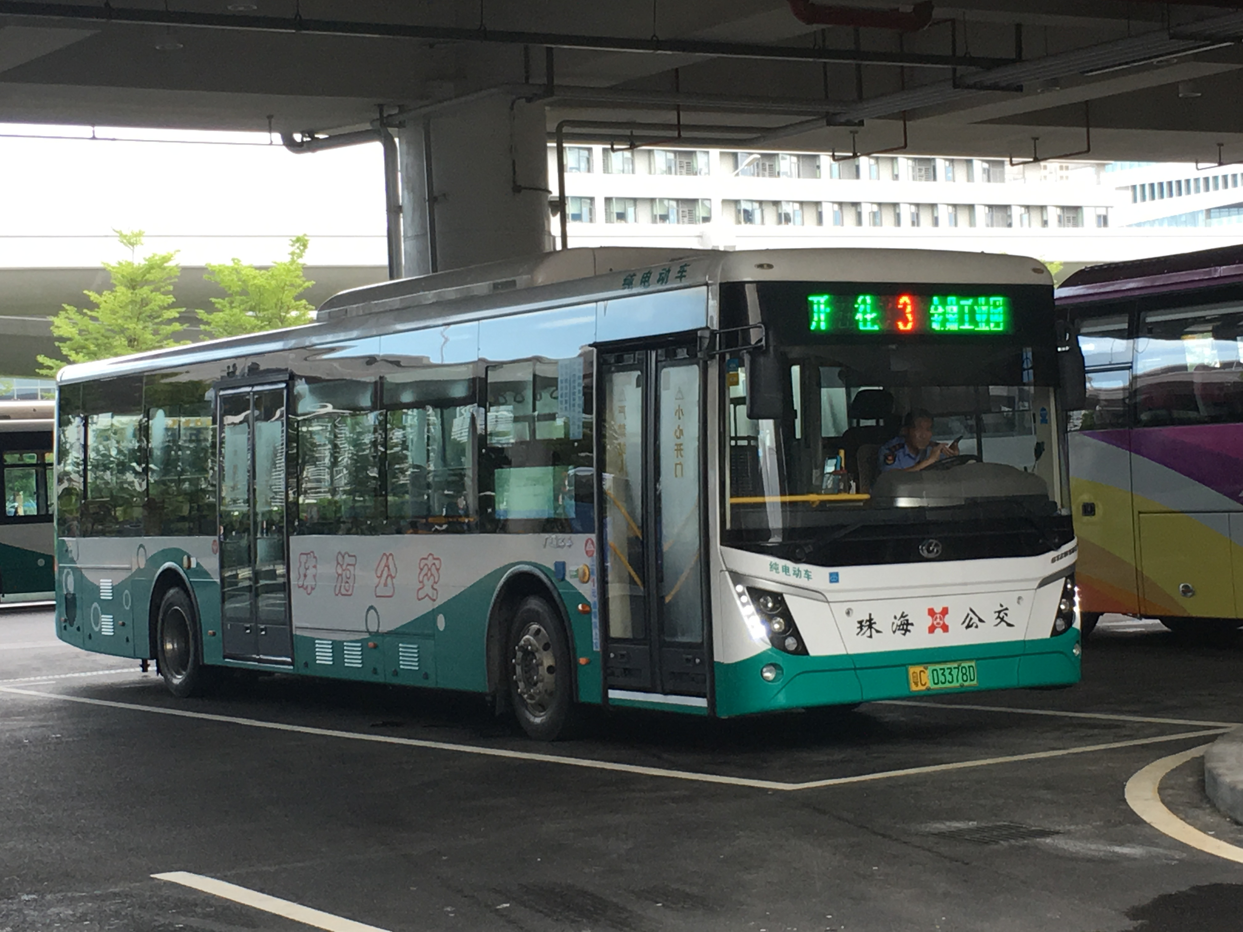 中文（香港）: This photo is taken in HZMB Zhuhai Port.